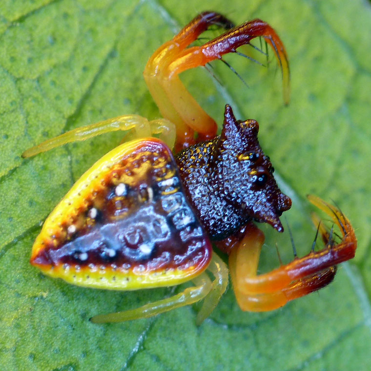 Arkys cornutus This ID is easier, cornutus refers to the horms projecting fro the front of the sides of the cephalothorax.